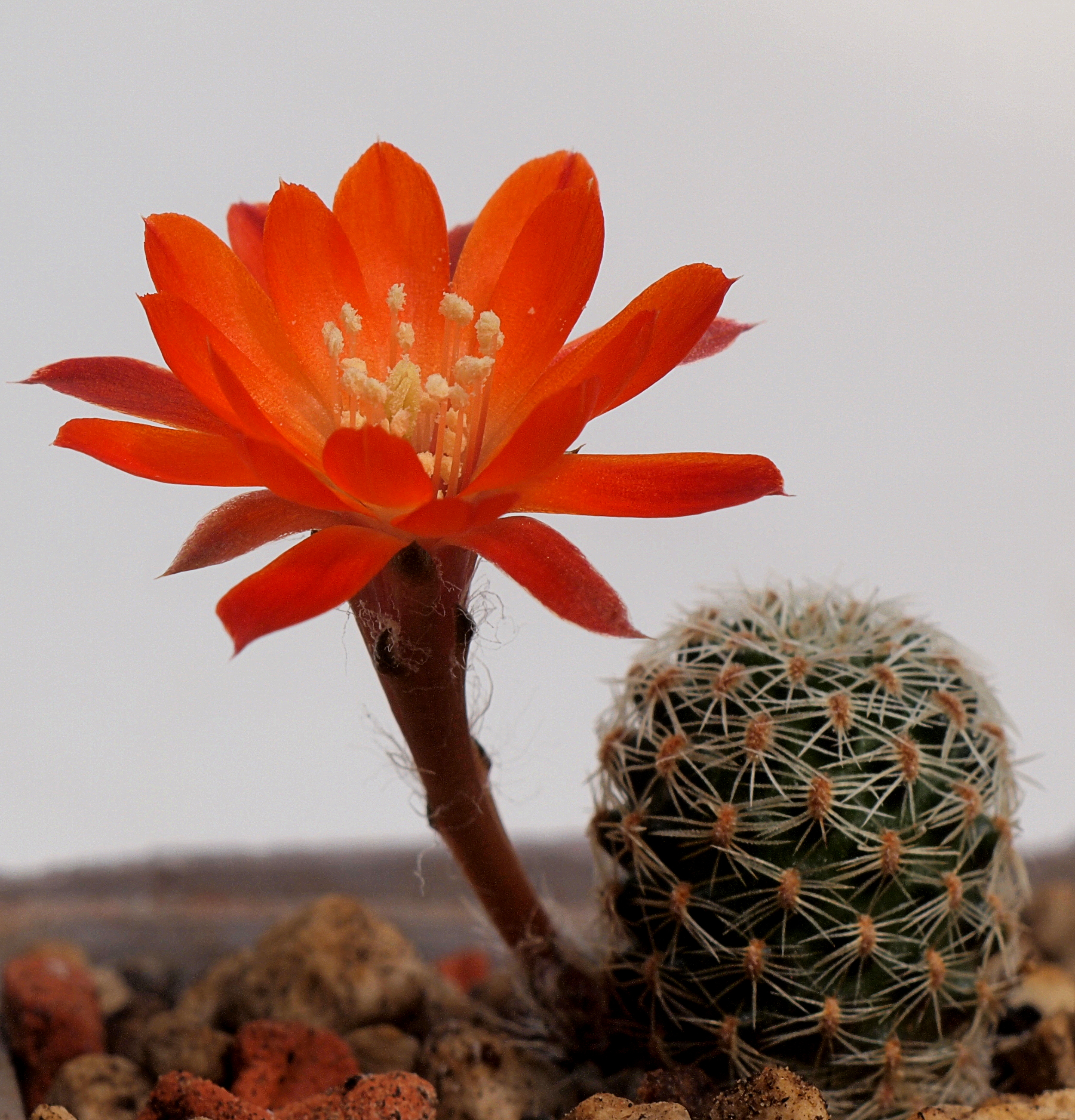 Aylostera schatzliana (or Rebutia schatzliana)